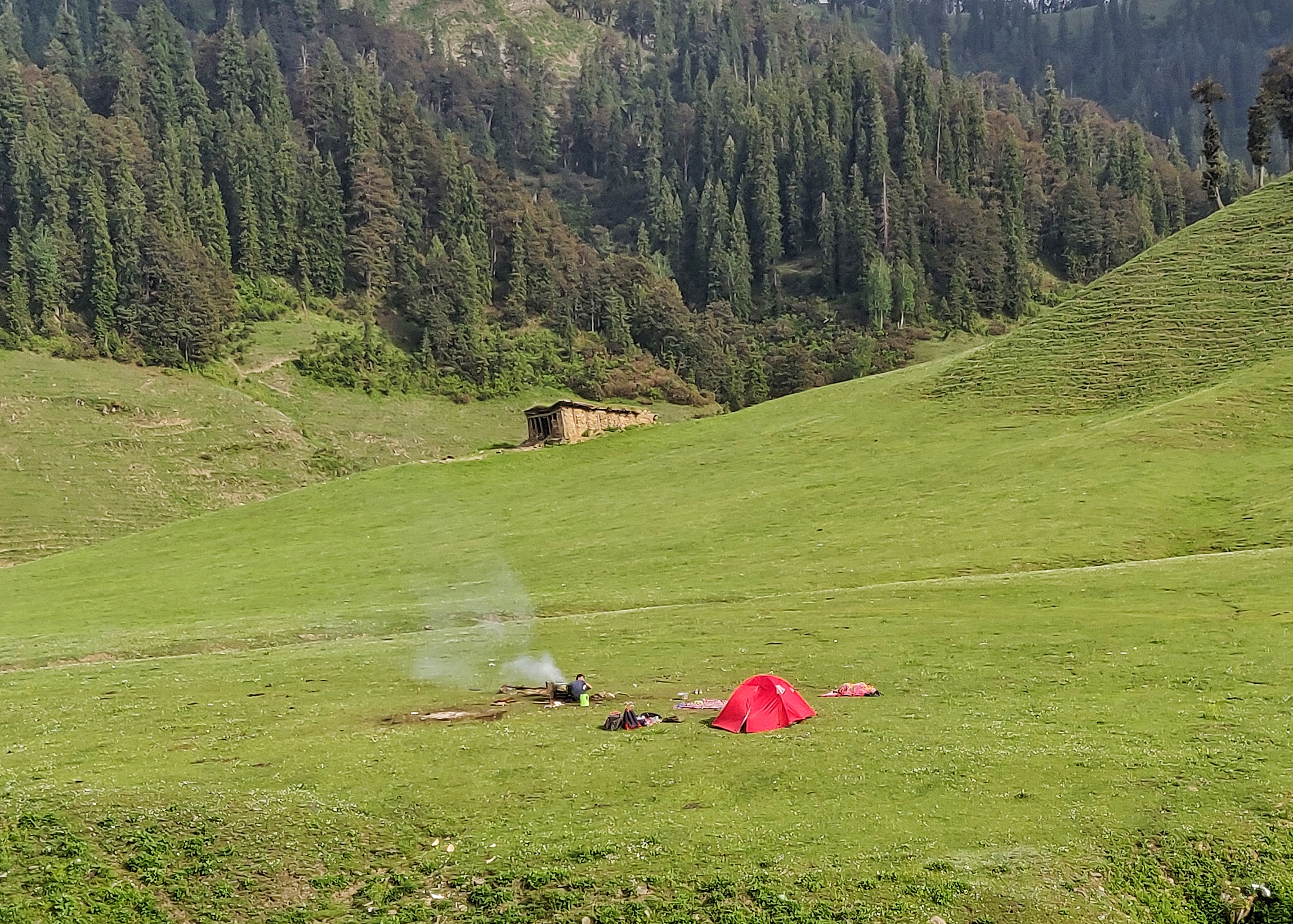 Bhal Padri meadow in Bhalessa.